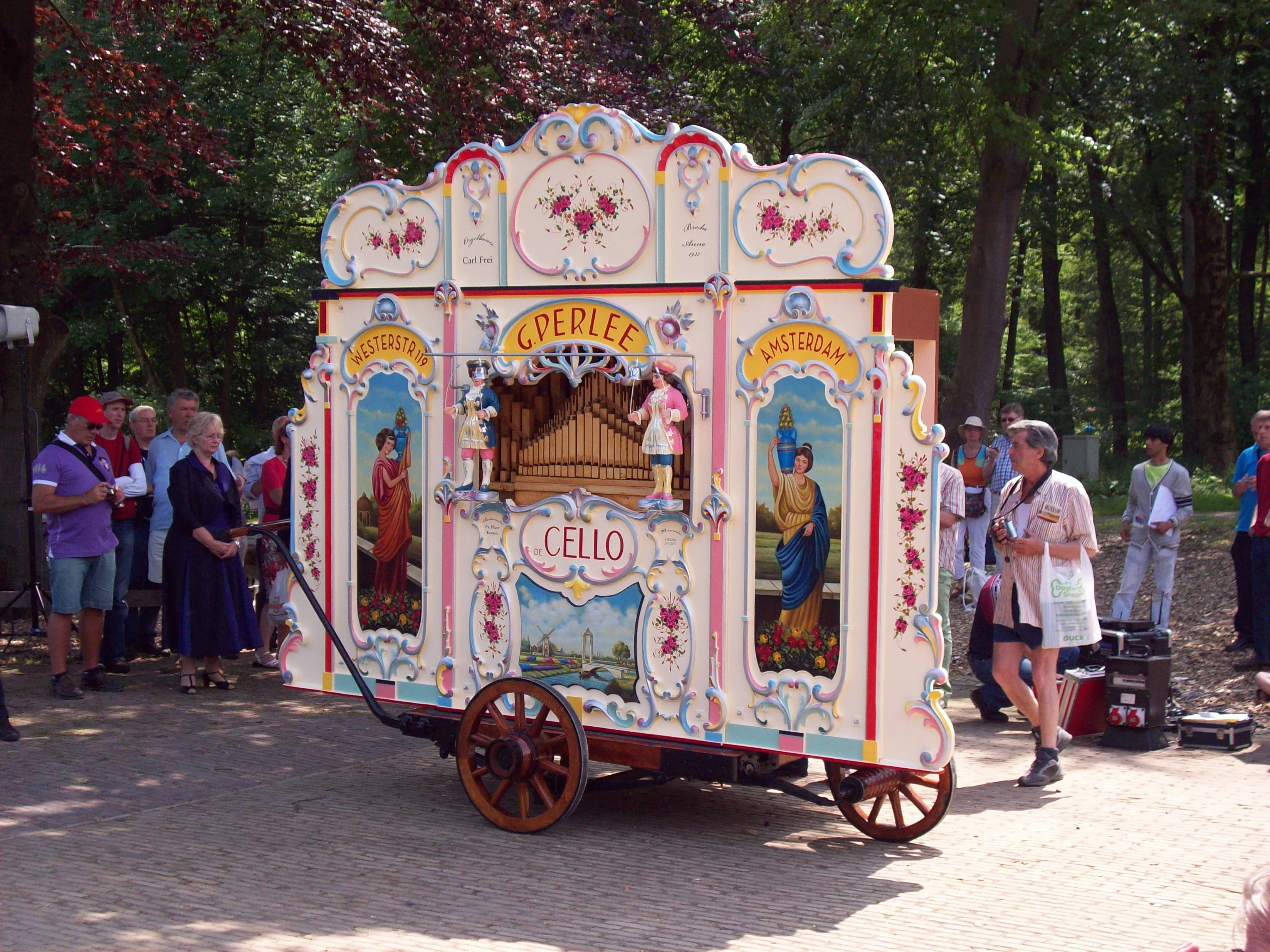 Barrel organ "de Cello" is a Dutch organ that in 1926 by Carl Frei was converted into Street organ. The exact date of construction is not known. The organ has 63 keys.